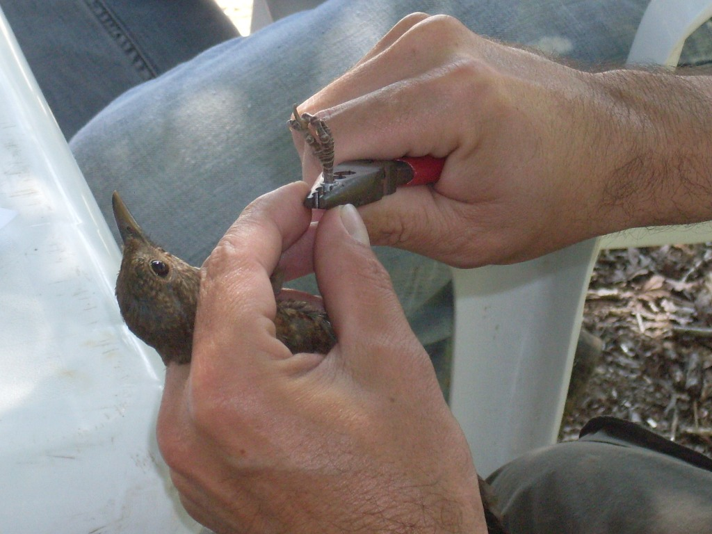 Juvenile blackbird (Turdus merula) ringed at Parque Biológico de Gaia (Portugal)